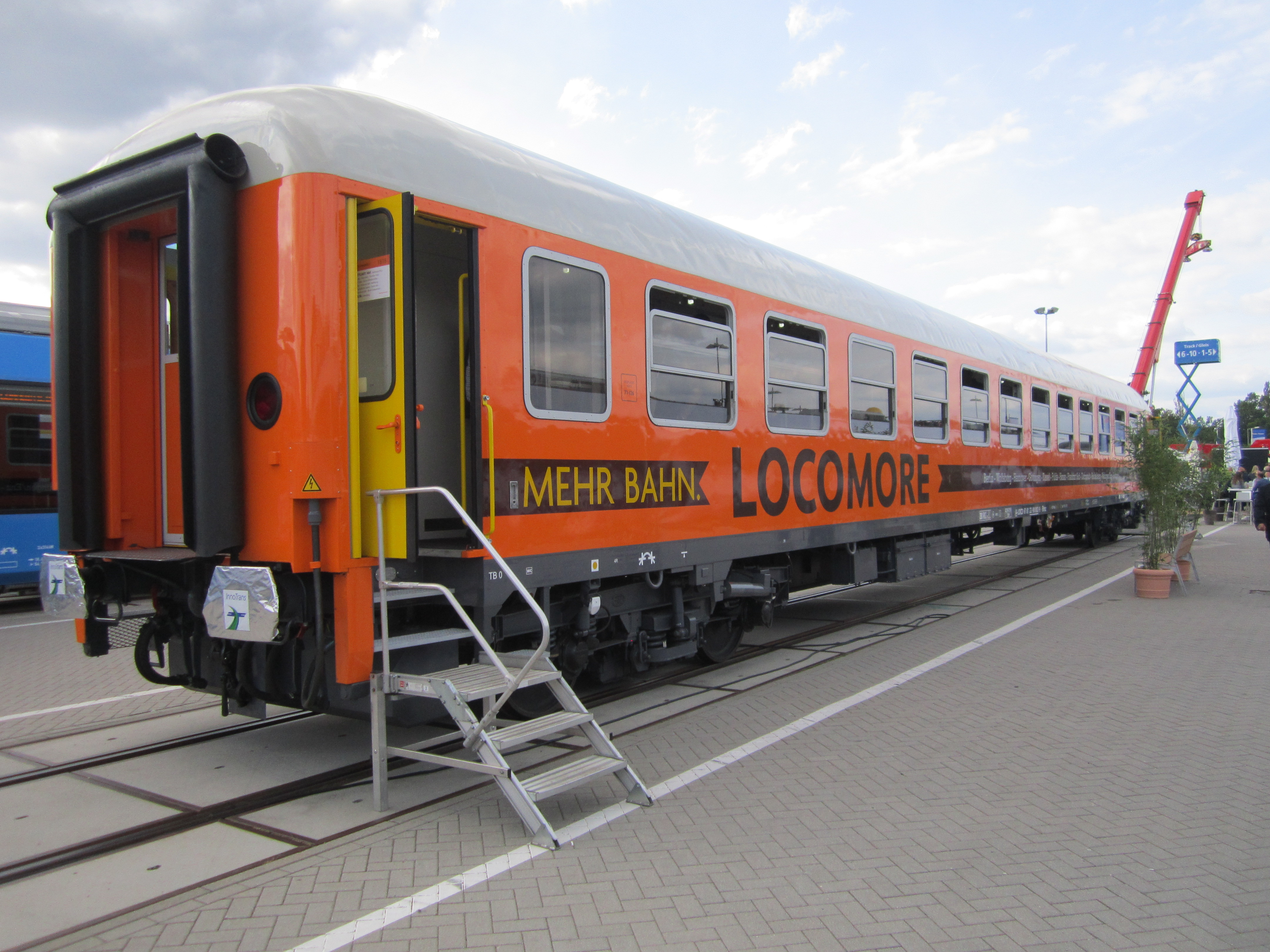 InnoTrans 2016: Corridor coach, reconstructed for Locomore trains between Berlin and Stuttgart.